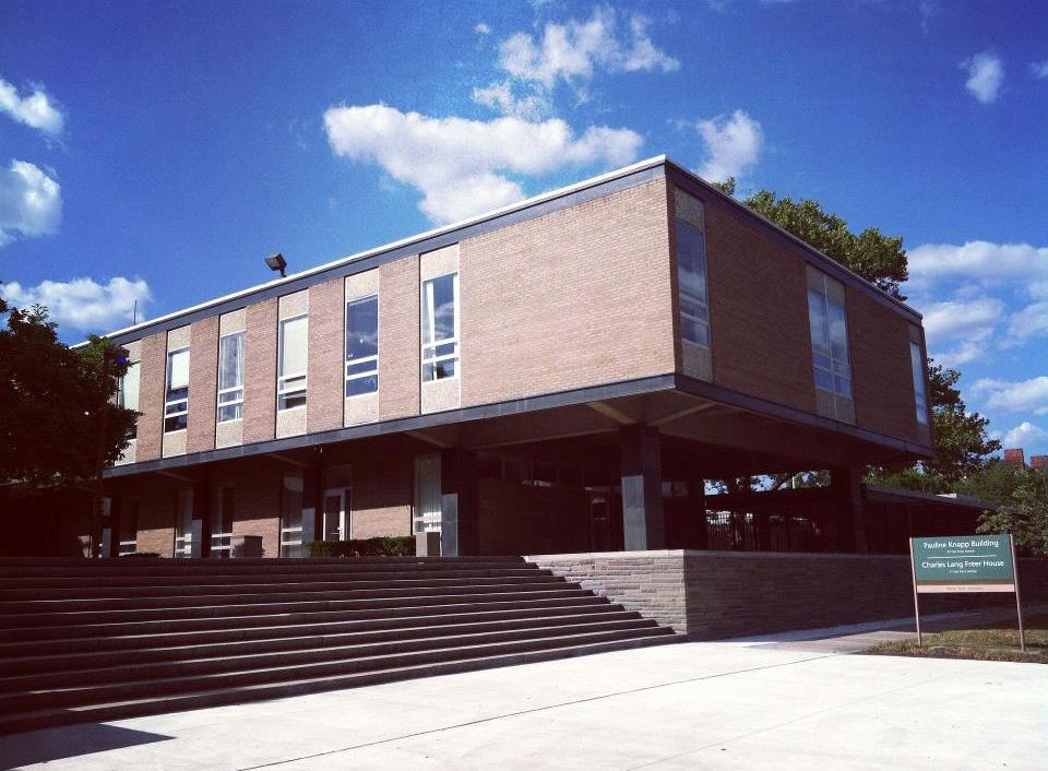 Front of Institute of Gerontology building. Detroit, MI.